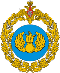 The great emblem of the Russian Airborne Troops instituted on May 6, 2005.